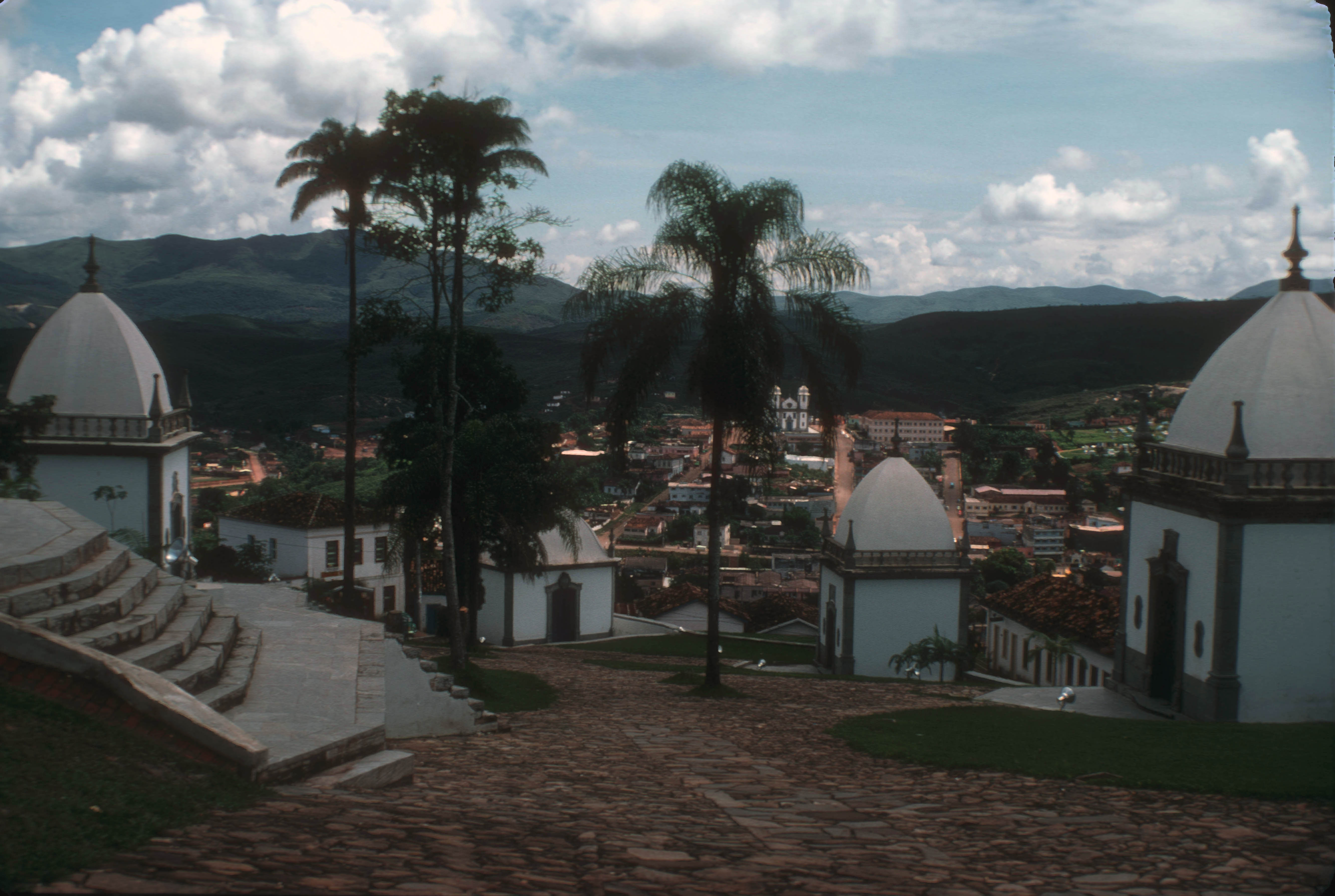 THESE STATIONS LEAD UP TO THE SANTUARIO OF BOM JESUS MATOSINHOS